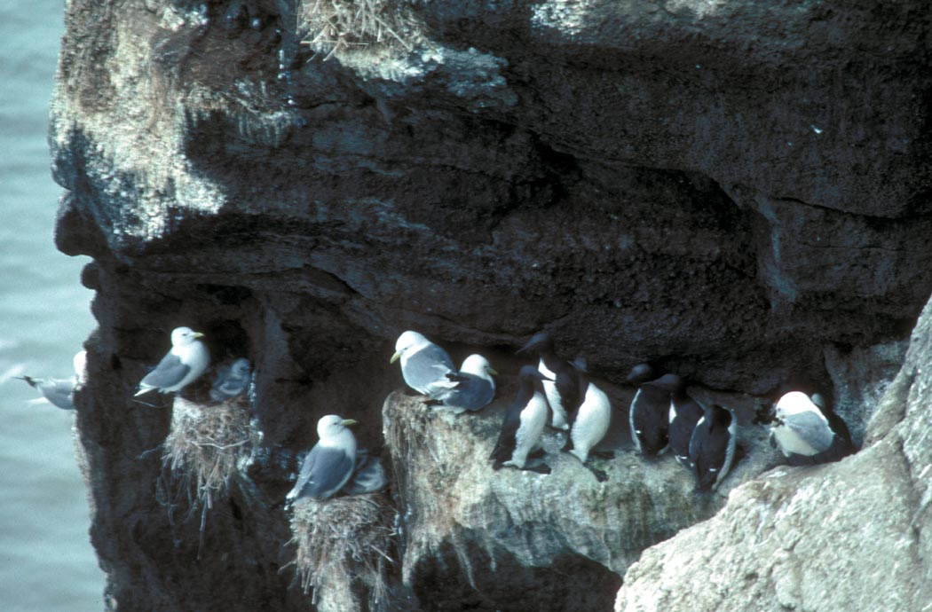 Black-legged Kittiwakes (Rissa tridactyla) and Murres (Uria aalge), Alaska Maritime National Wildlife Refuge